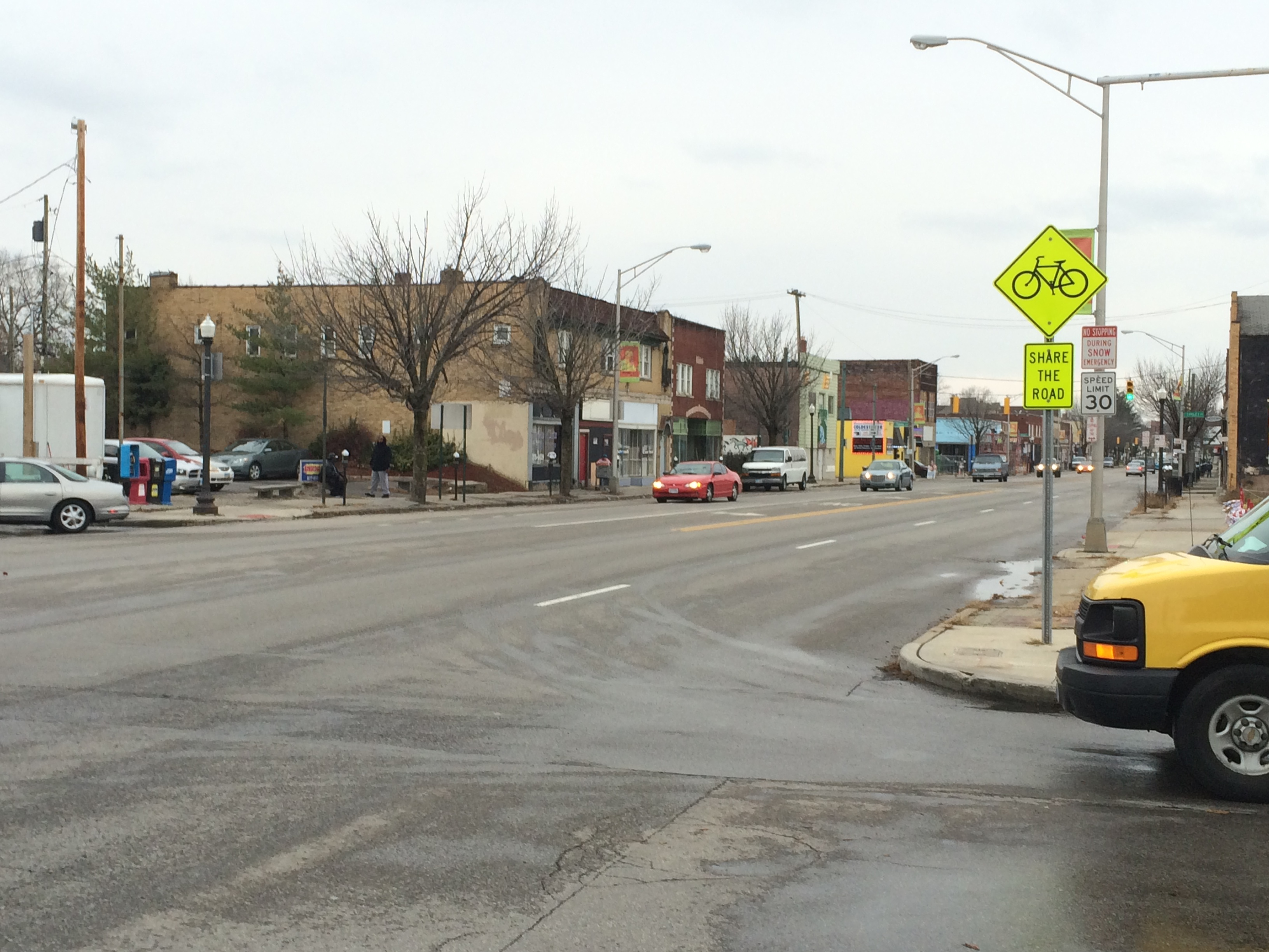 Not available